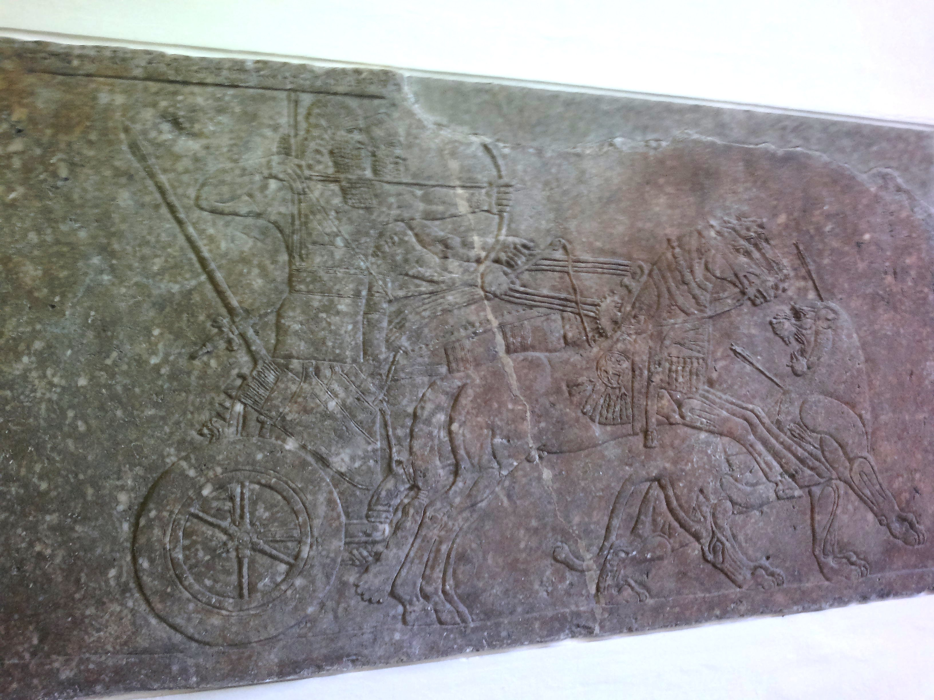 Relief with depiction of a lion hunt. Nimrud, reign of Ashurnasirpal II (883-859 BC). Alabaster, height 98 cm. Pergamon Museum, Berlin